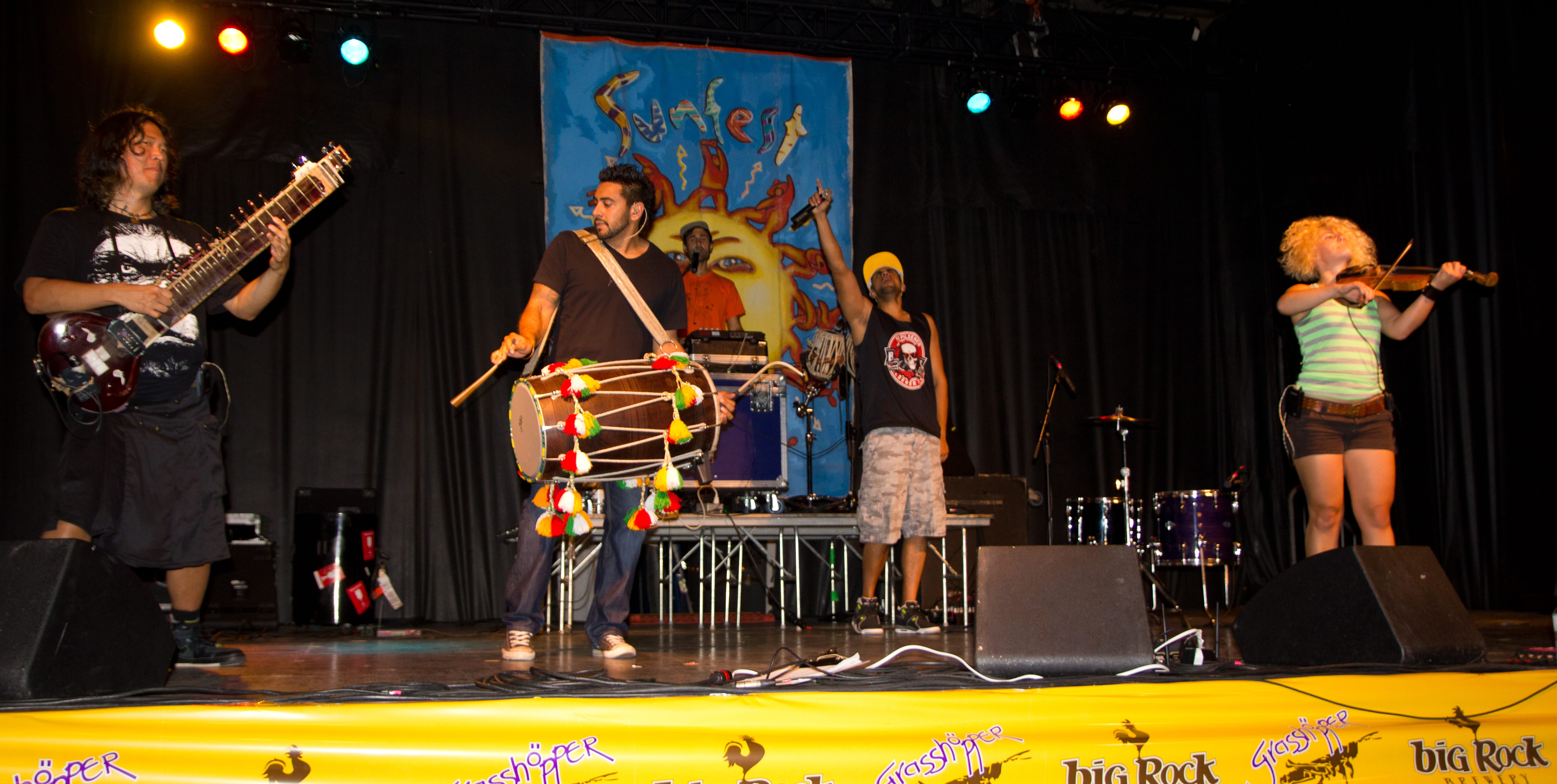 Delhi 2 Dublin performing at the 2012 Sunfest Festival in London, Ontario. From left in front: Andrew Kim, Ravi Binning, Sanjay Seran and Sara Fitzpatrick. In back on riser: Tarun Nayar